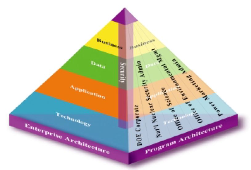 The graphic of the DOE EA Framework portrays the key components of the DOE Enterprise Architecture, as follows: A business layer describing current business lines and functions and delineating a future business environment based on Departmental business objectives and long-term strategies. A data layer summarizing existing information resources and establishing a target data environment. An application layer characterizing existing computer applications and defining a set of future applications to better meet DOE information processing and management requirements. A technology layer depicting existing computer hardware, software, and communications resources and outlining a future technology environment. A cross-cutting security layer summarizing current business, data, application, and technology security considerations and mitigation measures and establishing the components of a strengthened and technically up-to-date security infrastructure. The EA establishes an analytical framework by defining linkages among the business, data, application, and technology components of the architecture. The baseline (as is) and target (to be) architecture layers and the analytical framework establish the basis for developing a transition plan that defines the business process, data management, applications development, and infrastructure projects necessary to transition DOE to the target environment. The figure above also indicates another important aspect of the Department's EA - its relationship with Program architectures. DOE Program areas are developing their architectures to meet important programmatic business objectives. The DOE EA will not replace these architectures but will serve to frame them from a Departmental perspective. (source: US Department of Energy (2003) Systems Engineering Methodology Version 3, September 2002. p. 61-62)